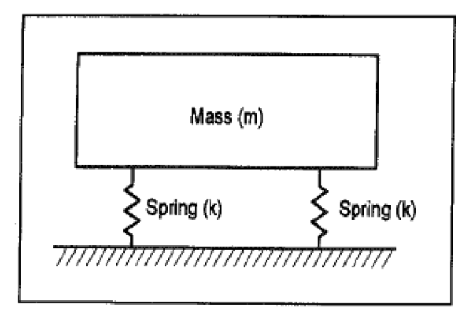 mass and springs diagram